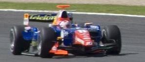 Javier Villa driving for Racing Engineering at the Circuit de Nevers Magny-Cours round of the 2008 GP2 Series season.